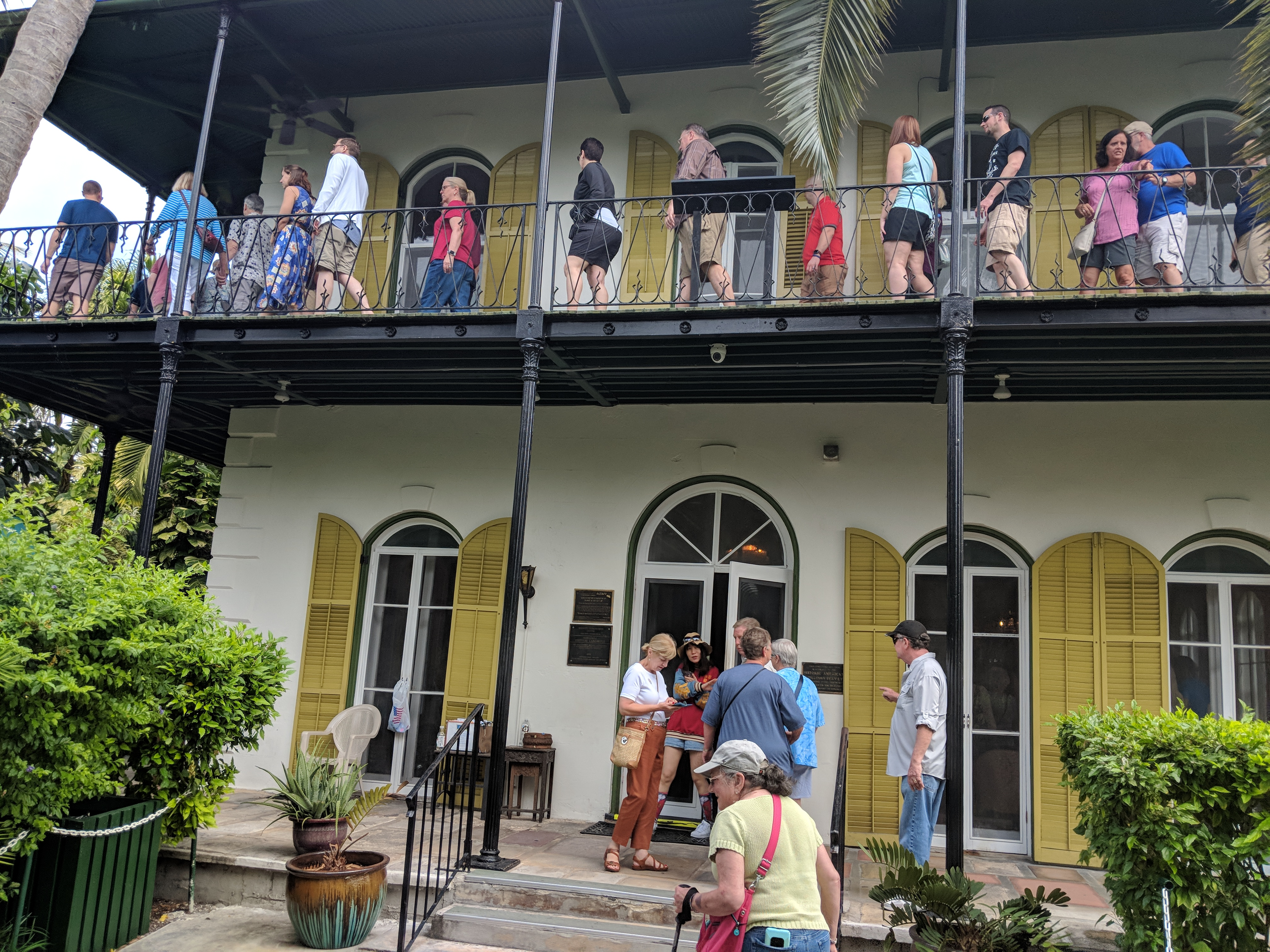 Tourists visiting the Hemingway House in Key West, Florida. Photo by Jim Heaphy.